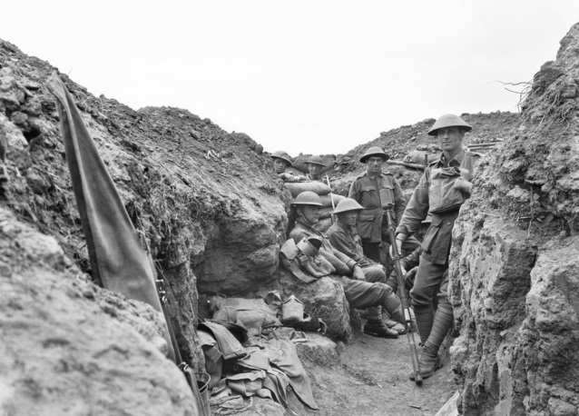 Soldiers from the Australian 58th and 59th Battalions in trenches at Morlancourt, July 1918